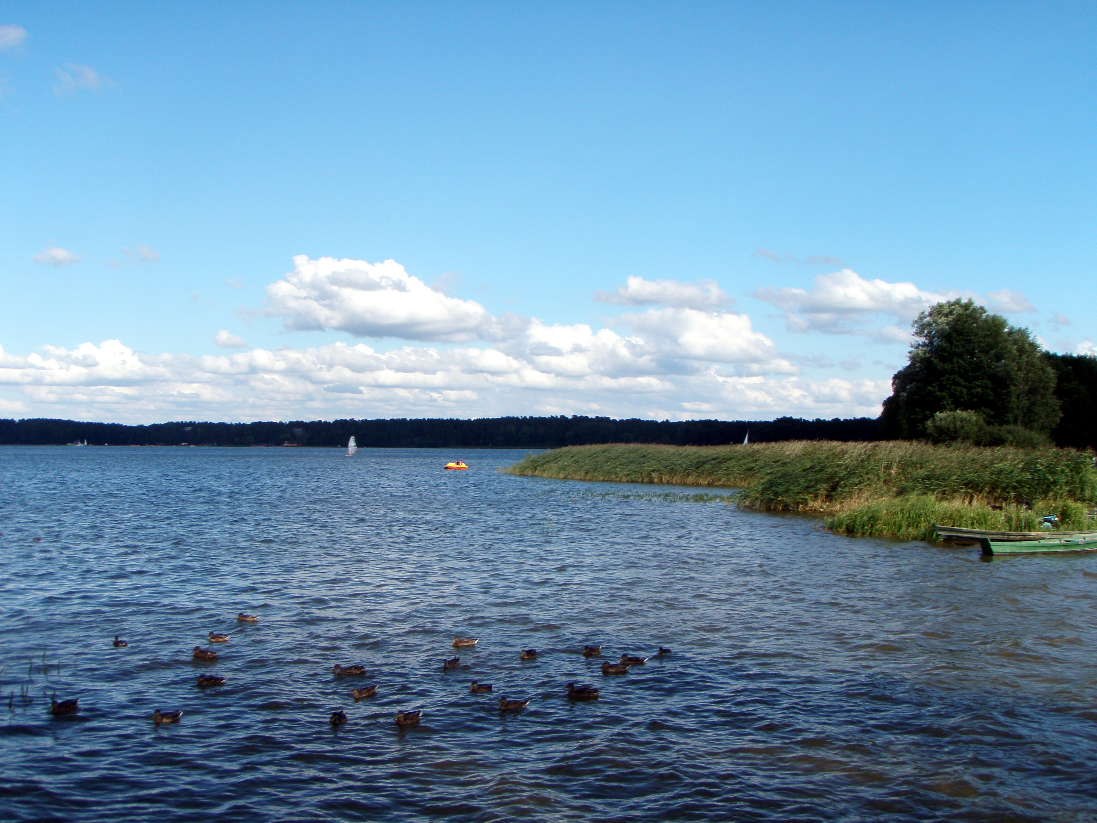 Lake Necko in Augustów (Poland). View from quarter Borki.